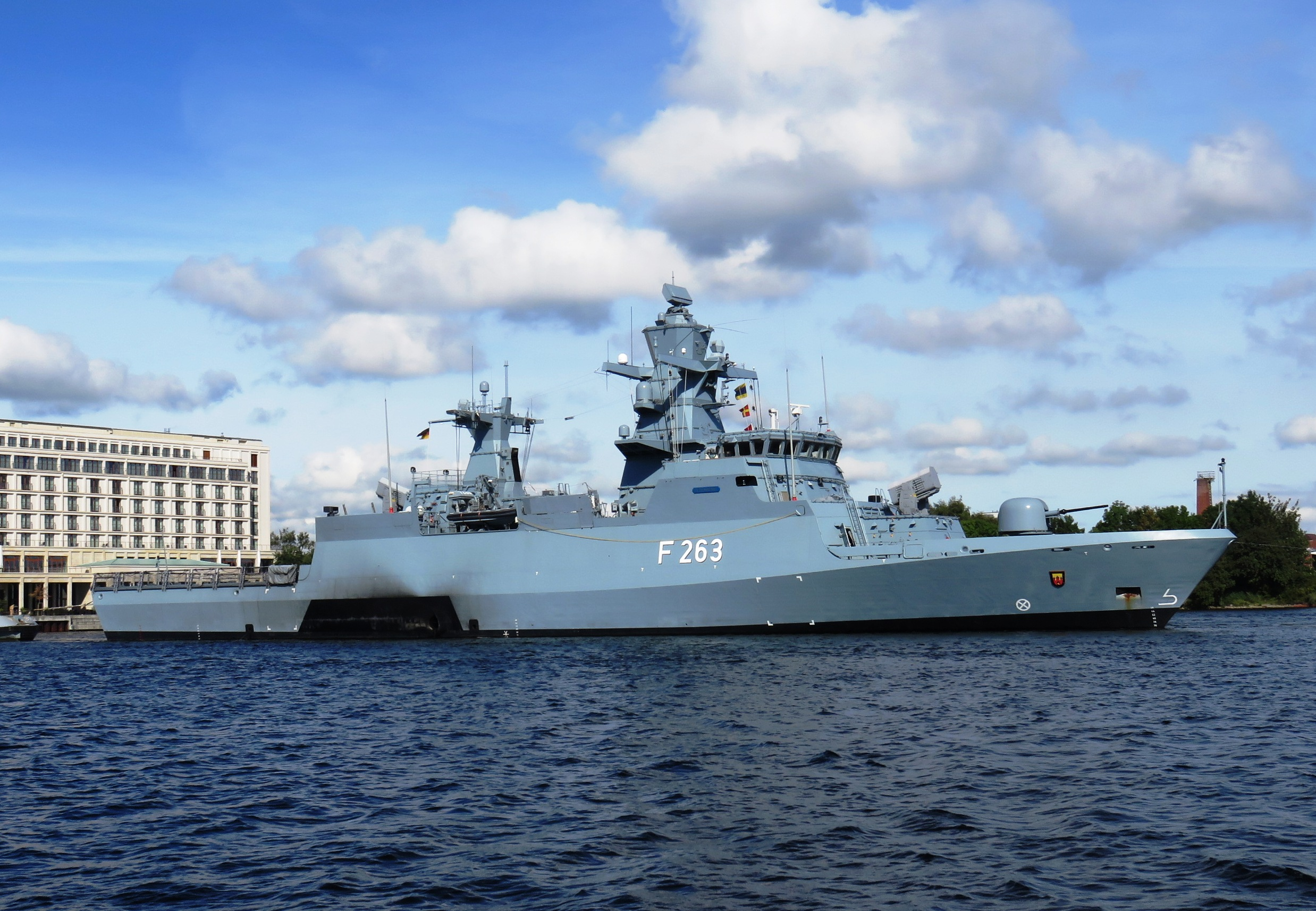 German corvette Oldenburg (F 263) at the degaussing range in Wilhelmshaven